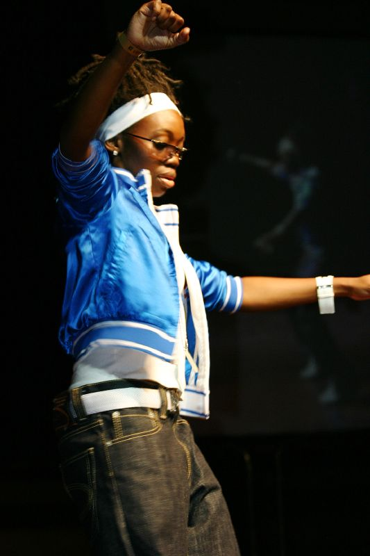 A girl hip-hop dancing, a very broad category of street dance.